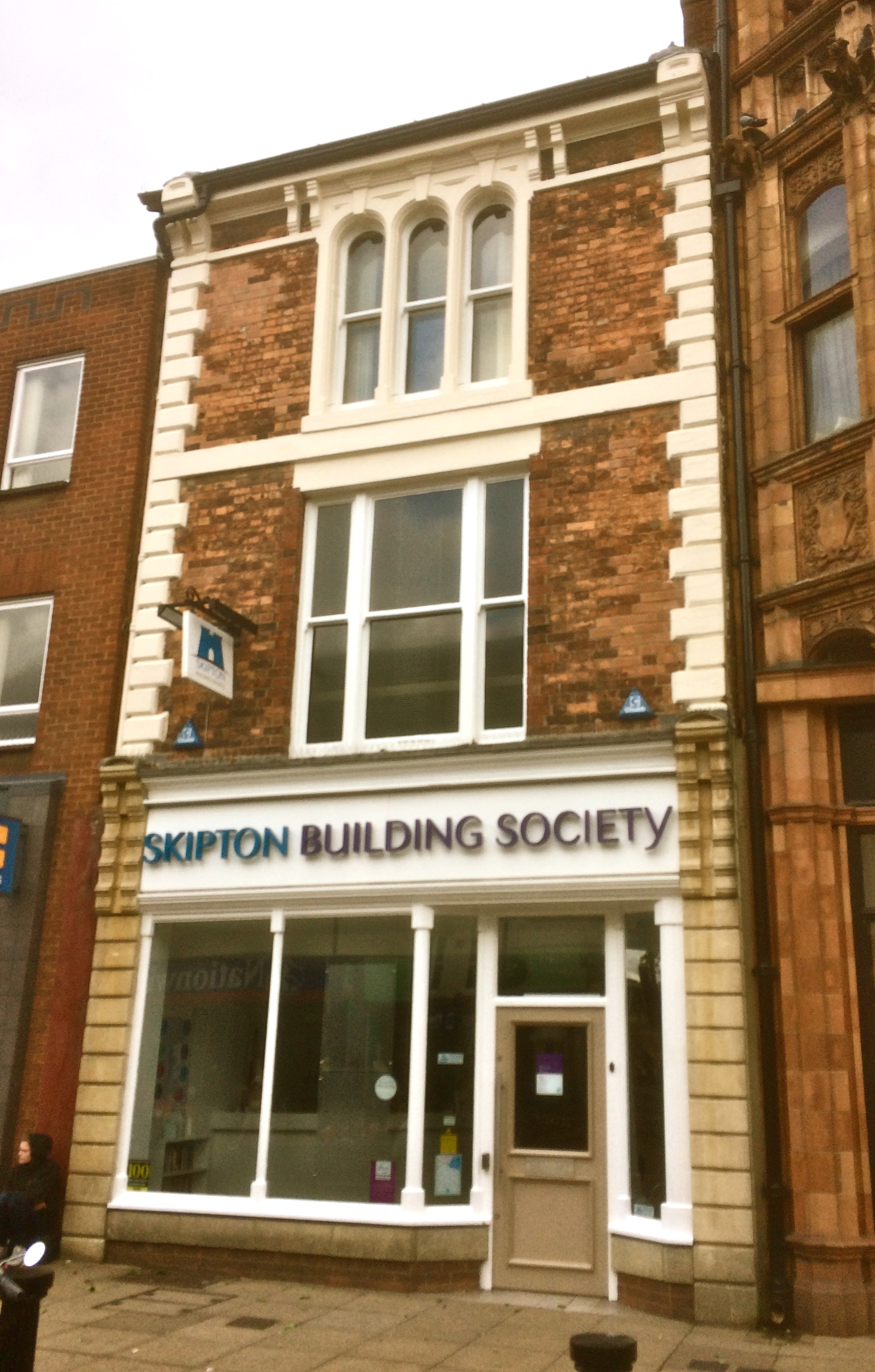 Skipton Building Society, 189 High Street Lincoln